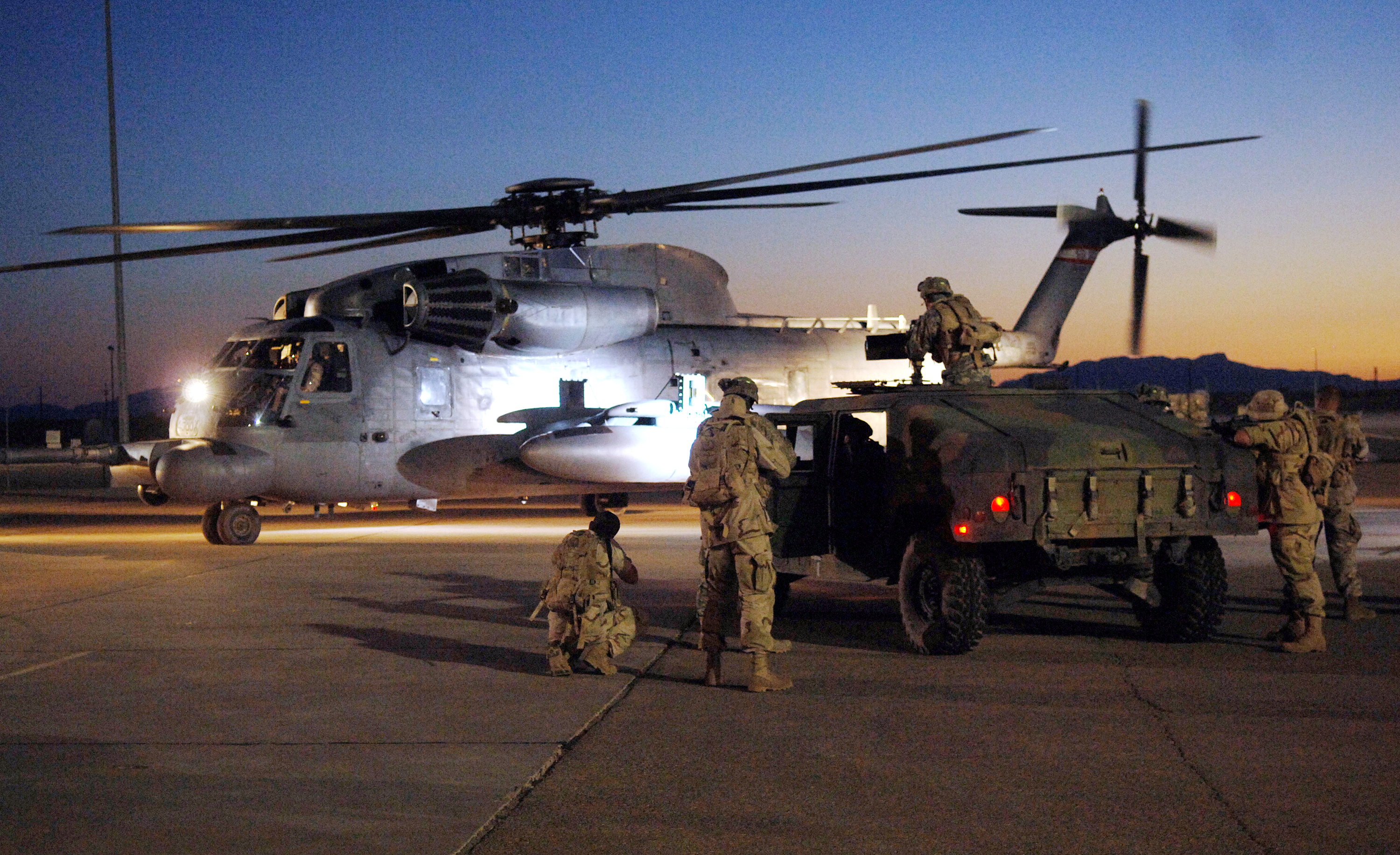 Airmen filling the roles of movie extras on the set of "Transformers" at Holloman Air Force Base, N.M., on May 30. The MH-53 landing represents the Decepticon character Blackout in alternate mode. The movie is scheduled for release in July 2007.